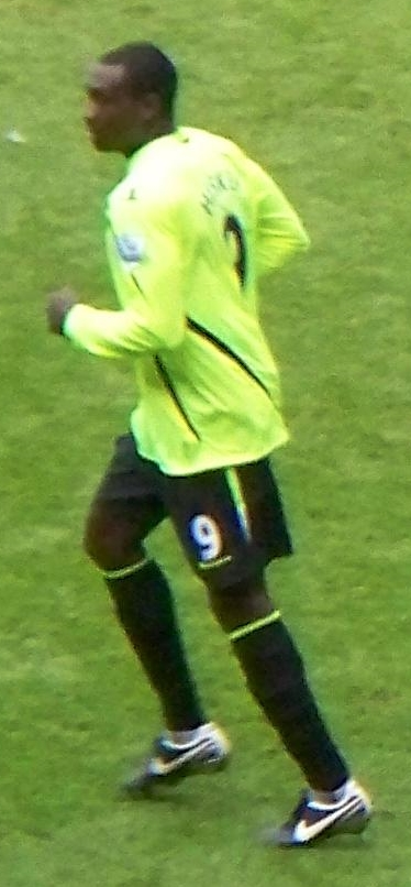 Emile Heskey playing for Wigan Athletic against Tottenham Hotspur at White Hart Lane, London on 21 September 2008